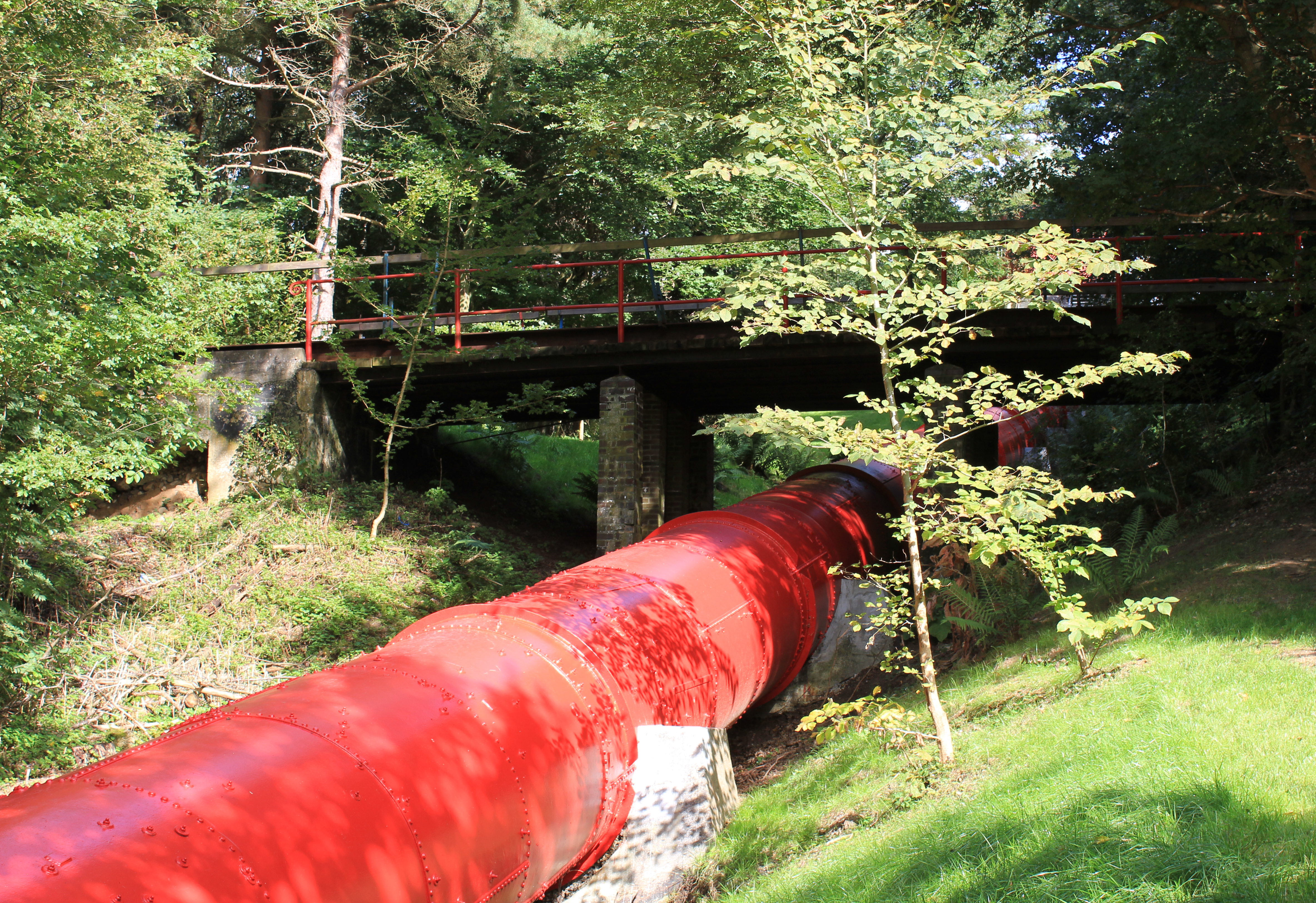 Harteværket is a hydroelectric plant in Harte,Kolding, which was built in the years 1918-1920 and is Denmark's first major hydroelectric plant. Harteværket started towards the end of the first World War, in order to meet the growing need for electricity. The architect was Ernst Petersen and construction workers employed around 350 workers. The water for the plant comes from Donssøerne, which was formed by the damming up Vester Nebel stream and Alminde stream. The water is running from Donssøerne down to the plant's turbines through channels and a 80 meter long tube with a decrease of 25.4 meters. Flowing 6,000 liters of water through the pipes every second. After the natural recreation of Vester Nebel stream in 2008, the water supply to Harteværket was reduced by 60%, but still produced electricity. Harteværket, which today serves as a working museum. The original turbines from 1920 produces 1.8 kWh. hour, depending on the amount of water. In 1992, it supplied about 1% of the electricity consumption in Kolding. Most of the equipment inside, is from the time it was buildt.